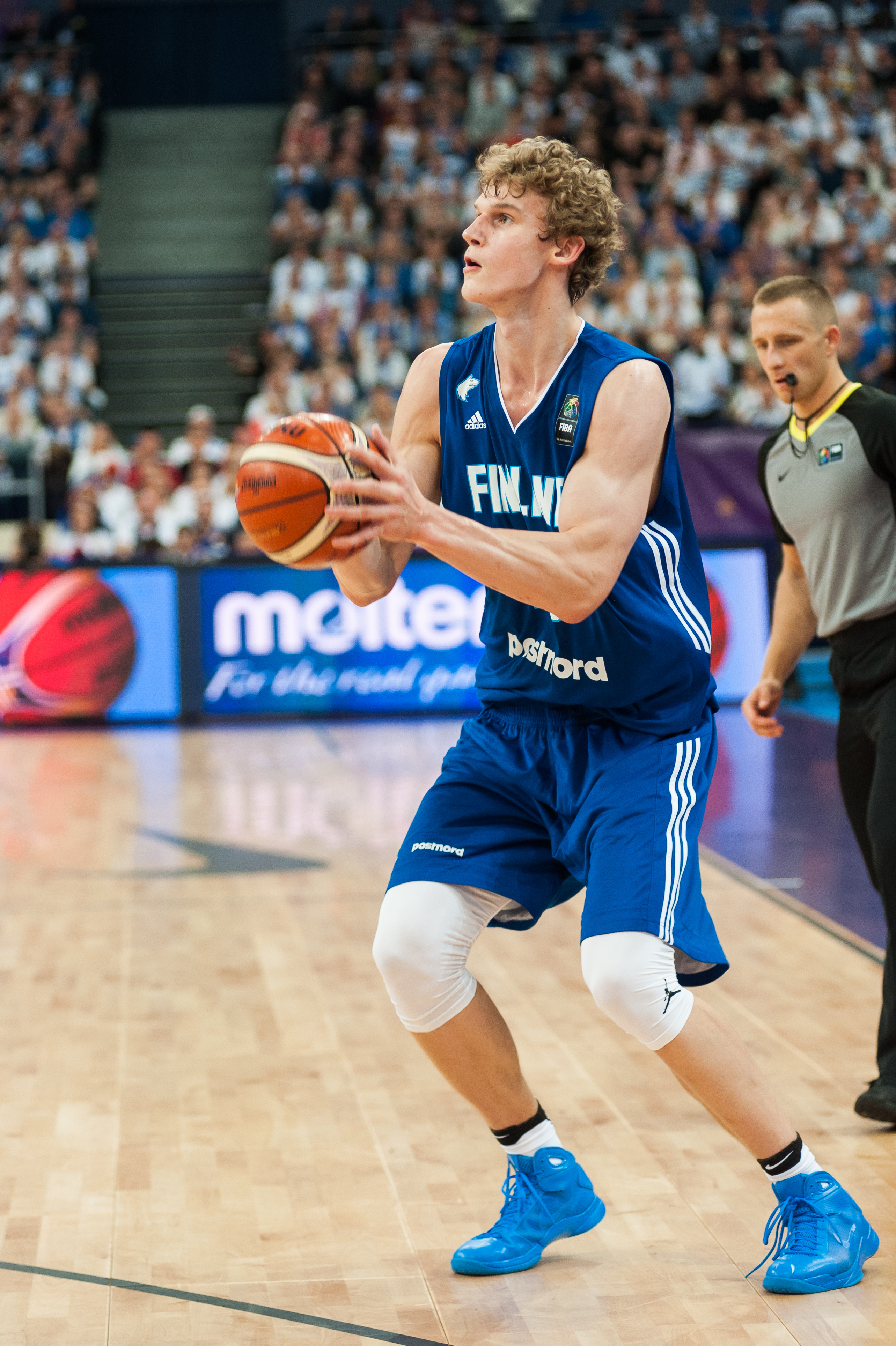 EuroBasket 2017 Group A game between France and Finland at Hartwall Arena in Helsinki, Finland.